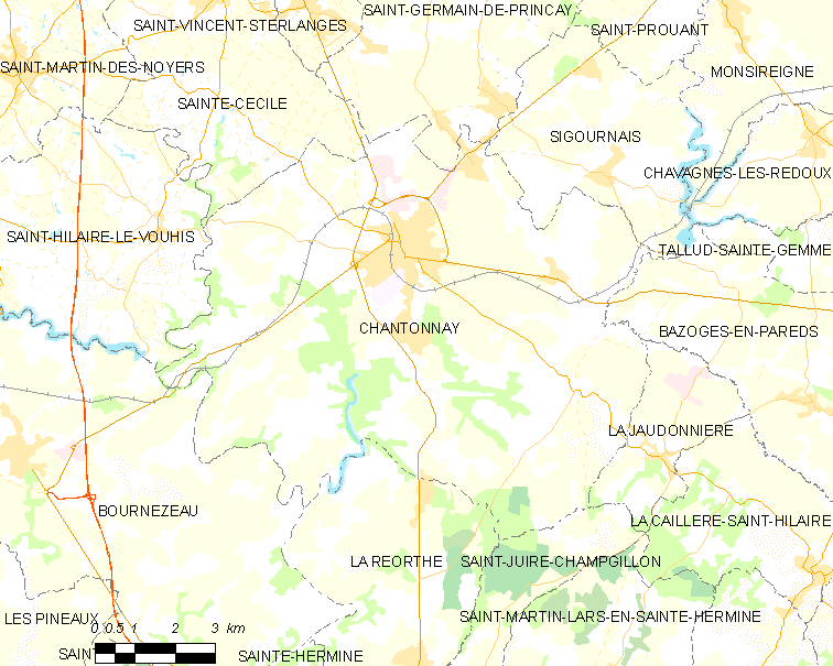 Map of French municipality Chantonnay